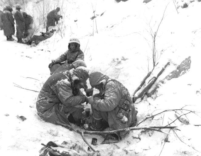 Exhausted Leathernecks of the 1st Marine Division stop for a brief rest during the bitter fighting at the Chosin Reservoir in Korea, December 1950.